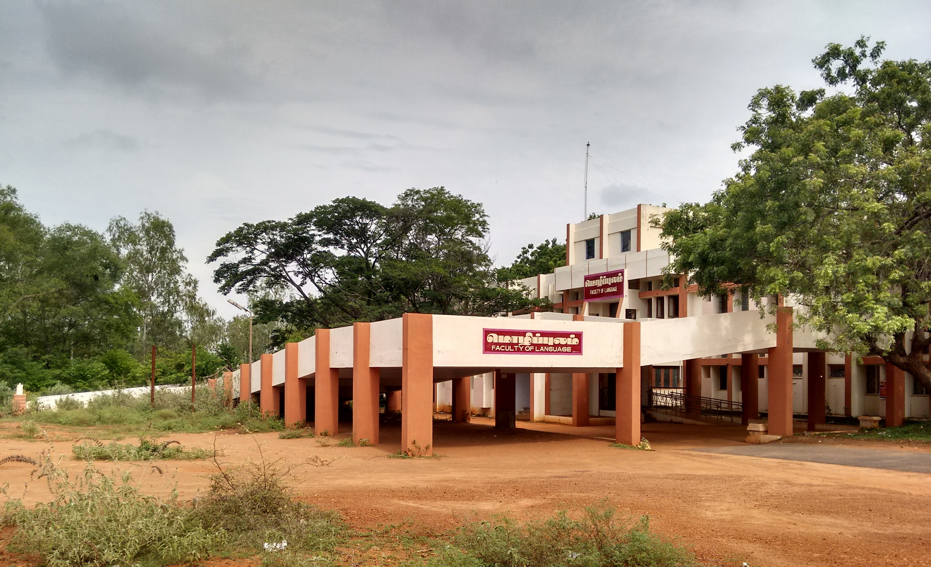 Tamiluniversity language faculty building தமிழ்ப்பல்கலைக்கழக ழ் வடிவ மொழிப்புலக்கட்டடம்